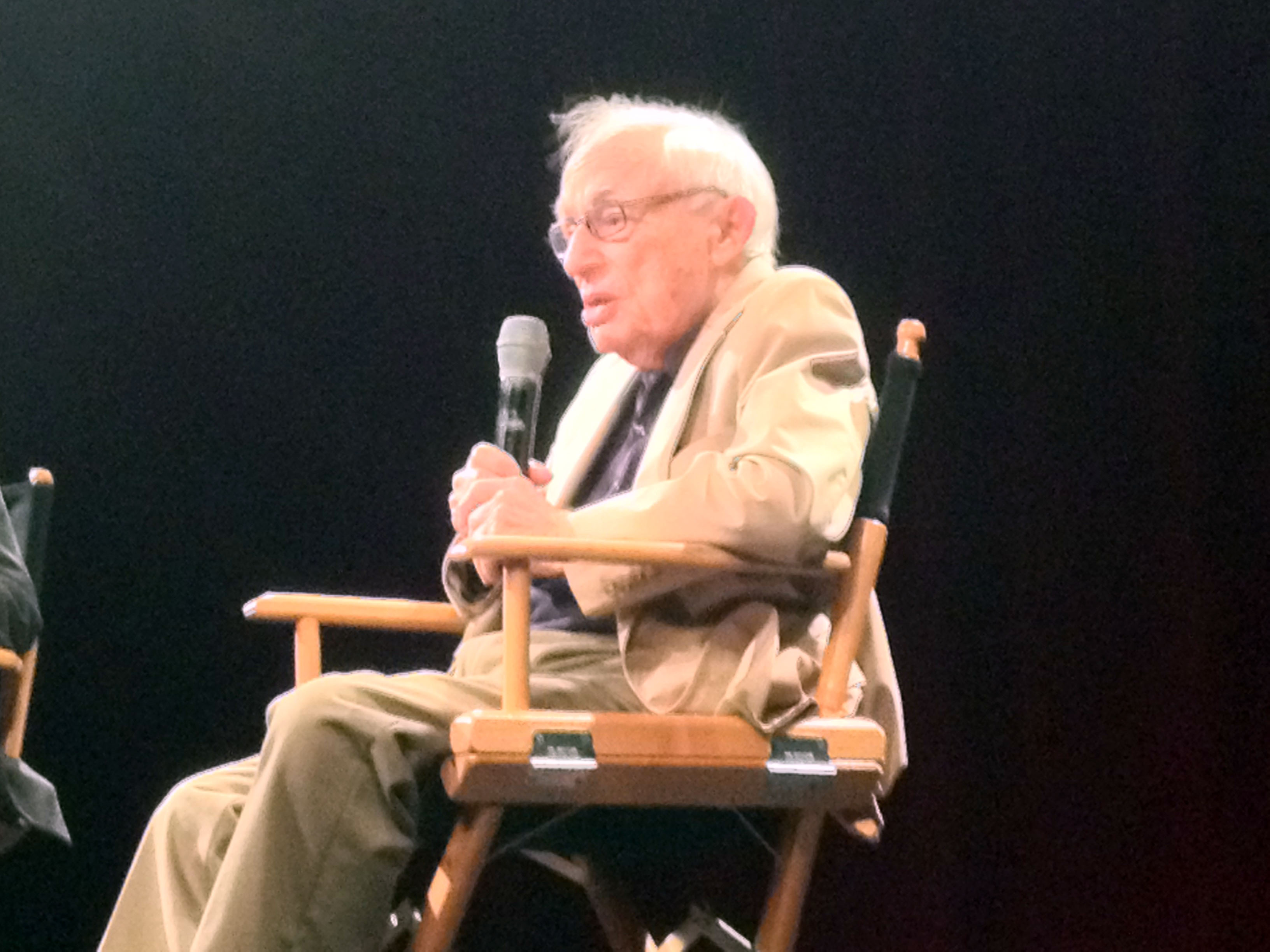 Screenwriter/producer Walter Bernstein during a June 7, 2016 Q&A that followed a screening of the 1976 film The Front, whose screenplay Bernstein wrote, at the SVA Theater in Manhattan. This photo was created by Luigi Novi. It is not in the public domain, and use of this file outside of the licensing terms is a copyright violation.